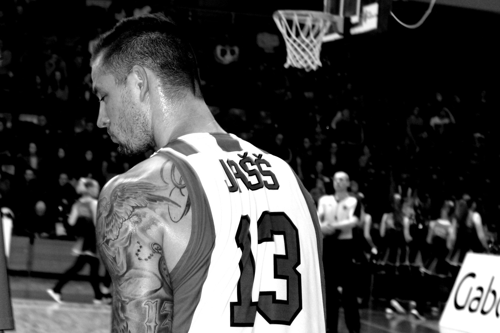 Marek Jašš of BC Prievidza during the match aginst MBK Lučenec in Slovakian league Eurovia SBL.